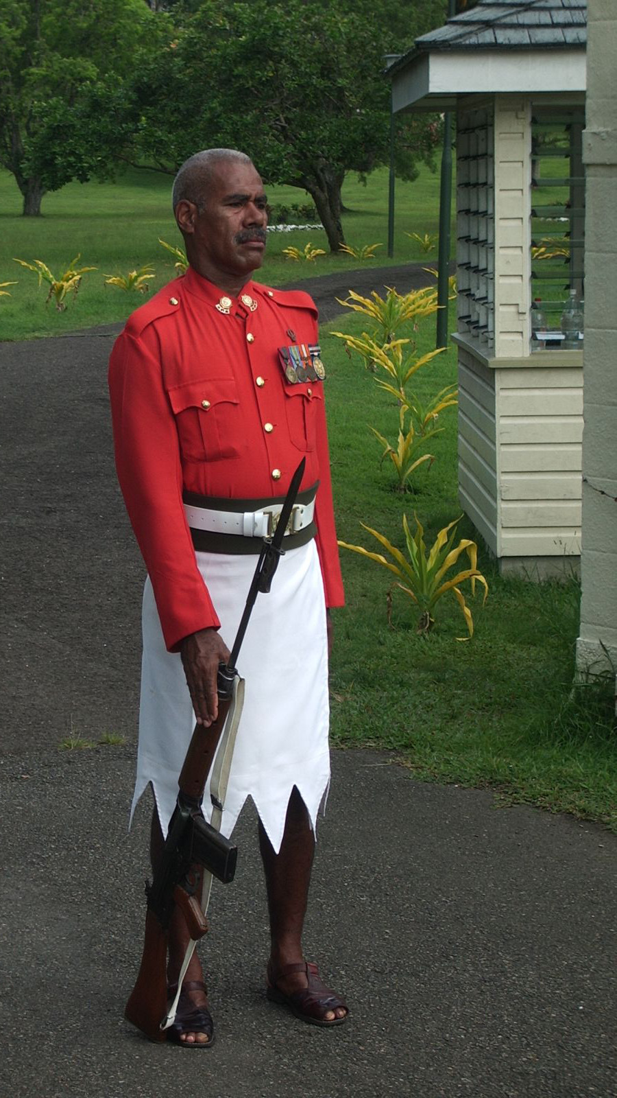 A guard at the presidential palace in Fiji, wearing a sulu, holding a bayonet rifle